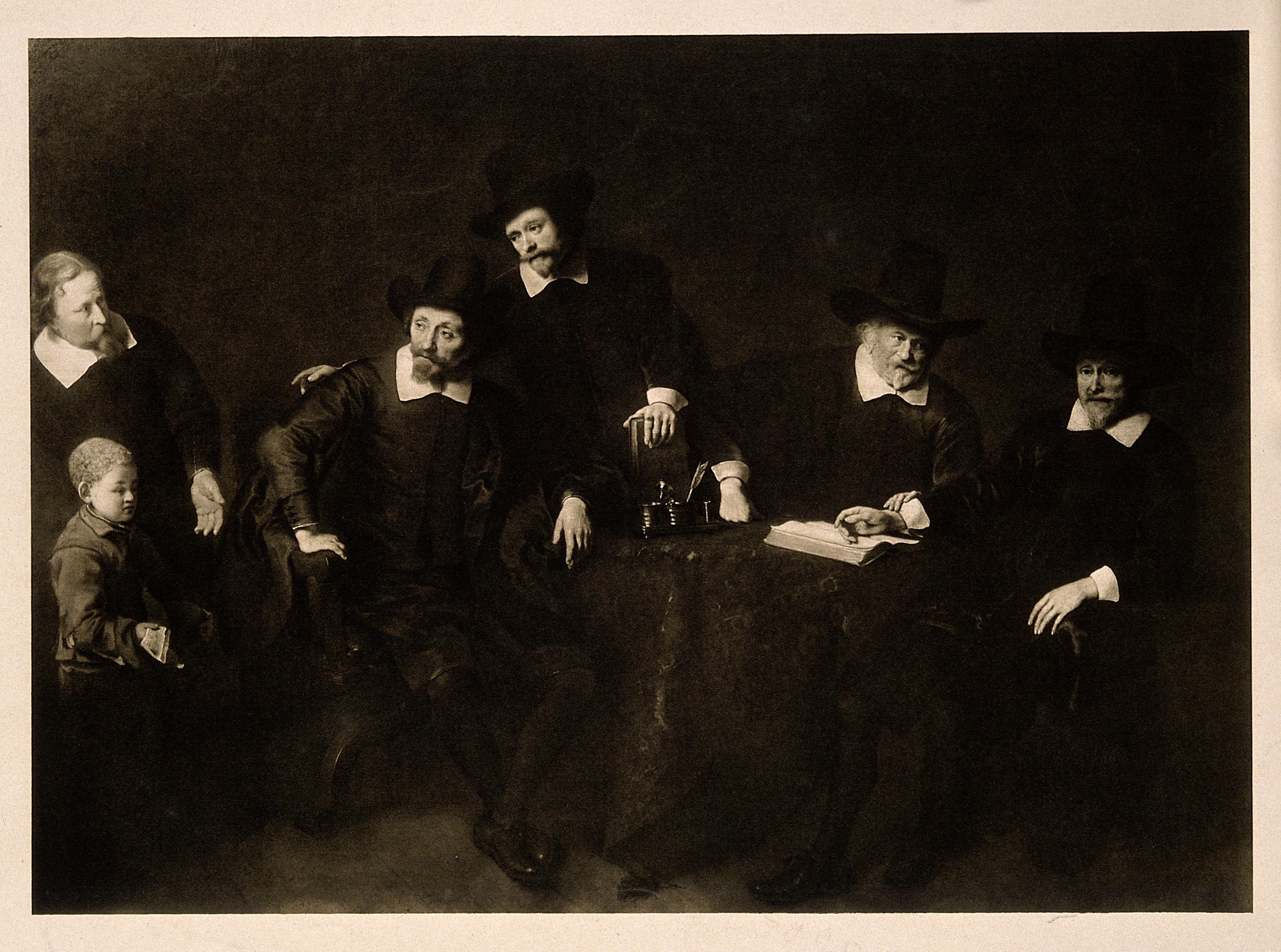 Regents of the Leprozenhuis in Amsterdam . Etching by L. Flameng after Ferdinand Bol Iconographic Collections